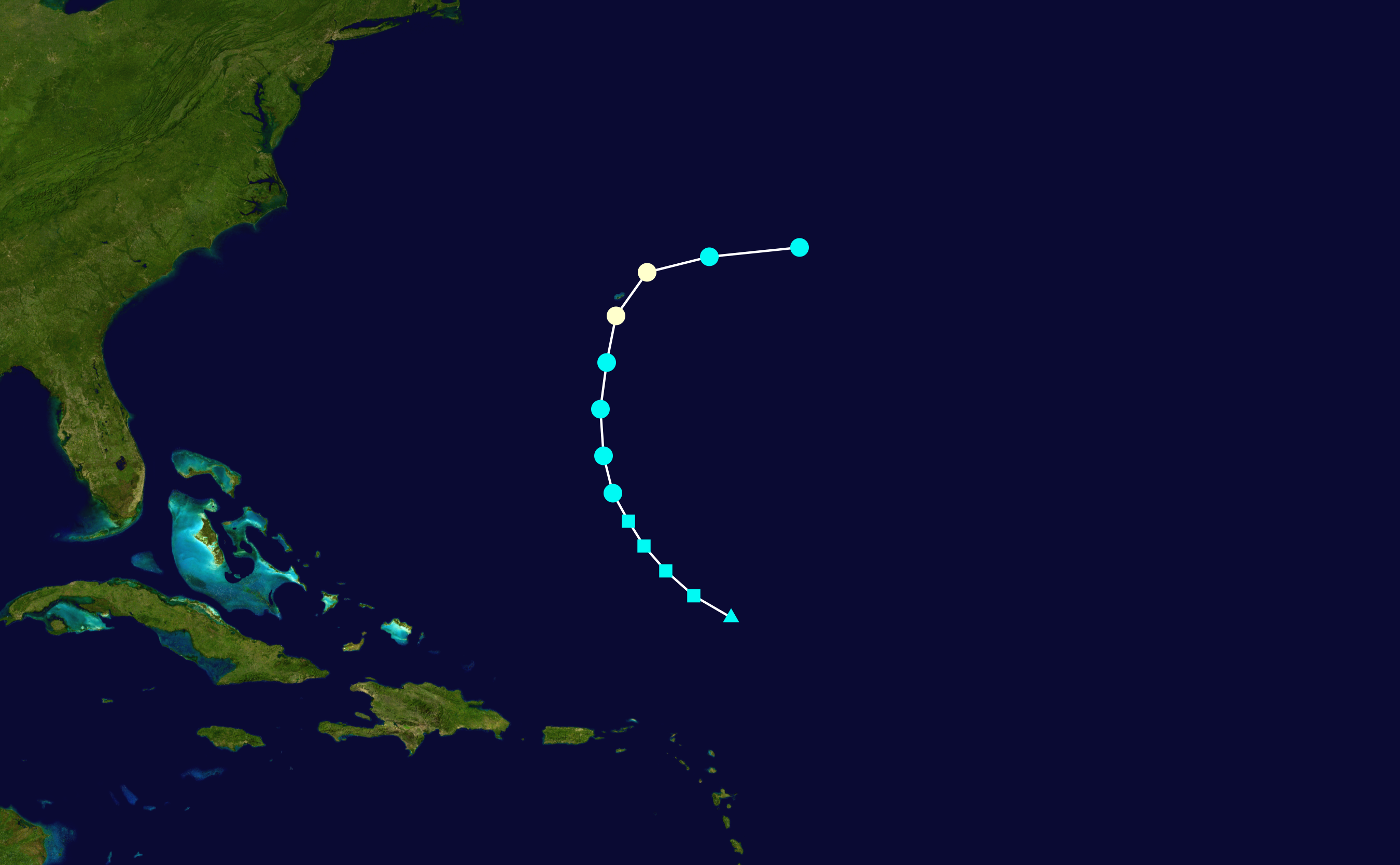 Track map of Hurricane Fay of the 2014 Atlantic hurricane season. The points show the location of the storm at 6-hour intervals. The colour represents the storm's maximum sustained wind speeds as classified in the Saffir–Simpson scale (see below), and the shape of the data points represent the nature of the storm, according to the legend below. Saffir–Simpson scale Tropical depression≤38 mph≤62 km/h Category 3111–129 mph178–208 km/h Tropical storm39–73 mph63–118 km/h Category 4130–156 mph209–251 km/h Category 174–95 mph119–153 km/h Category 5≥157 mph≥252 km/h Category 296–110 mph154–177 km/h Unknown Storm type Tropical cyclone Subtropical cyclone Extratropical cyclone / Remnant low / Tropical disturbance / Monsoon depression